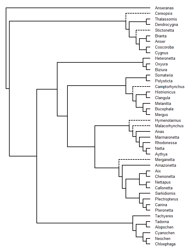 Classification of Anatidae after P.Johnsgard (1978)